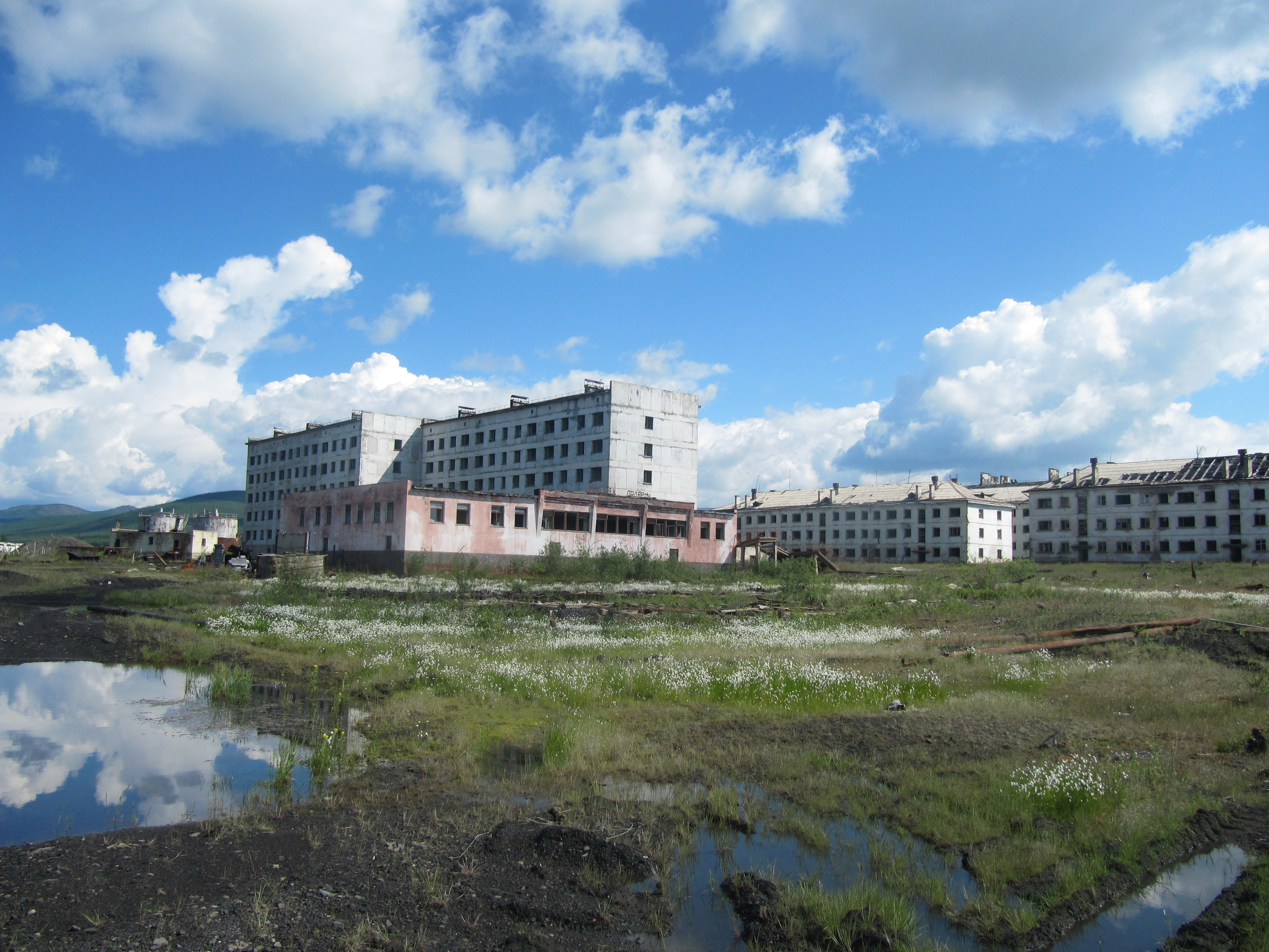 This was once a Soviet mining city.